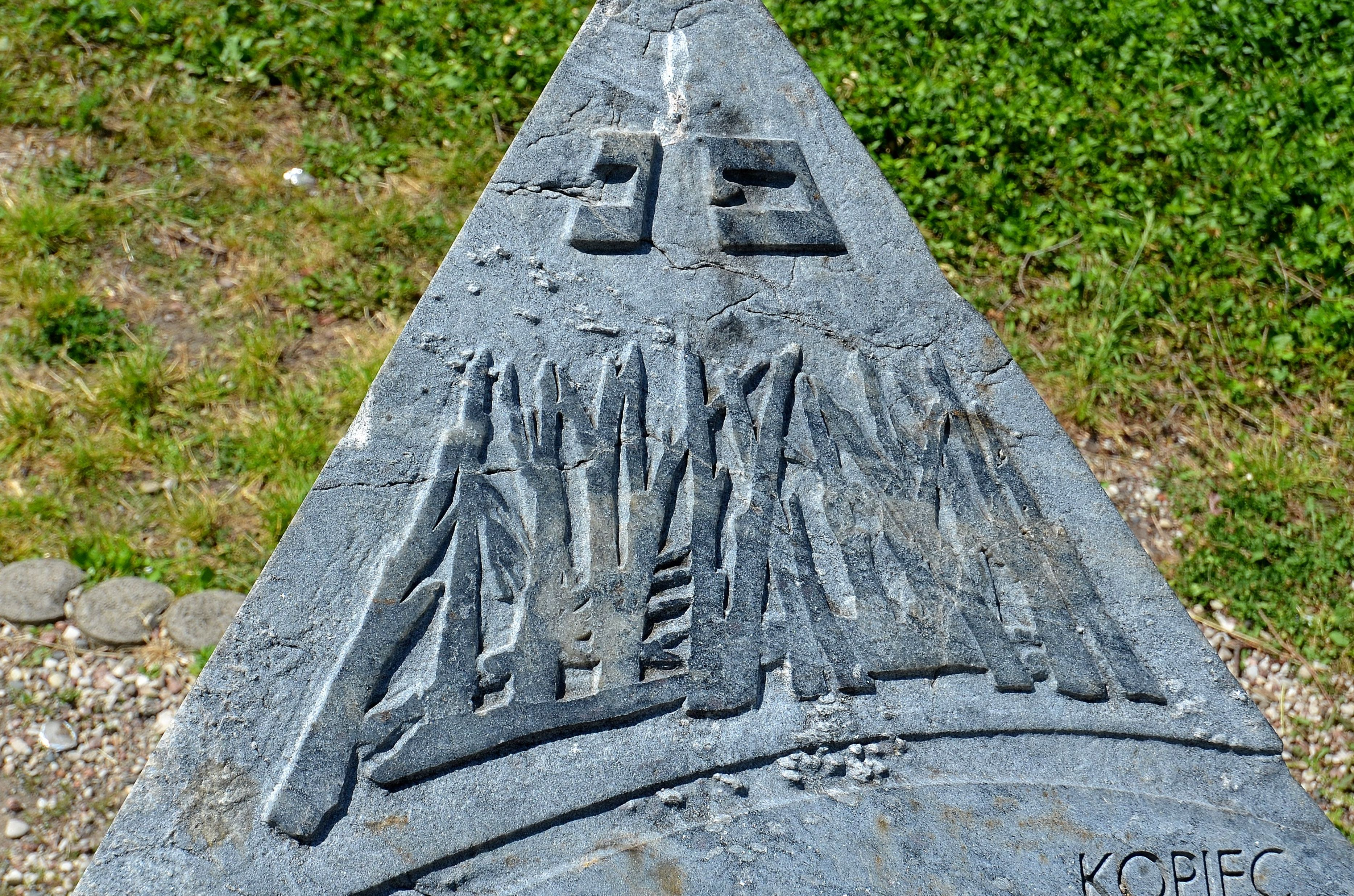 Shattered forest on the obelisk at the foot of Anielewicz Mound at 18 Miła Street in Warsaw